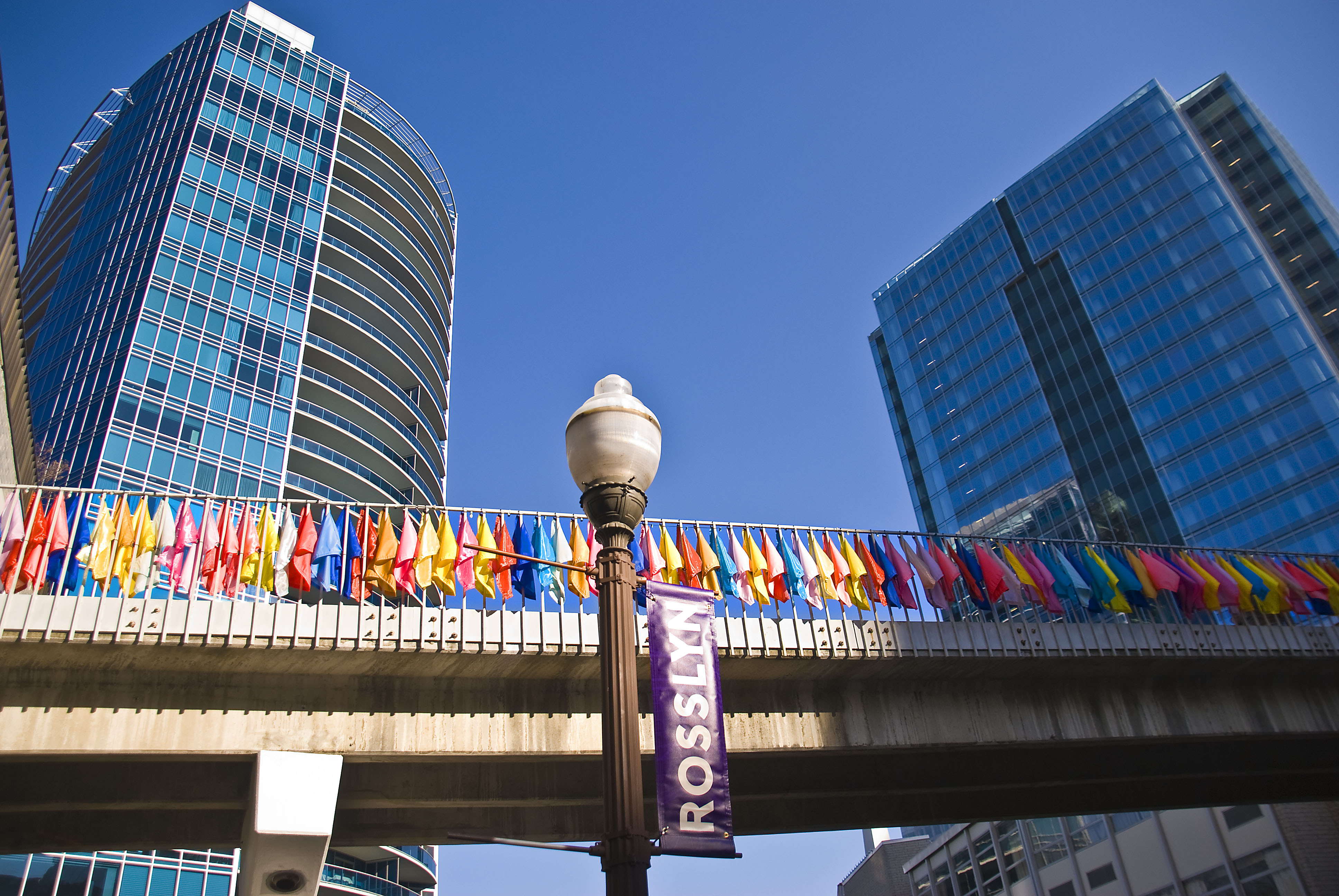 Left: Turnberry Tower Arlington Right: 1812 N Moore